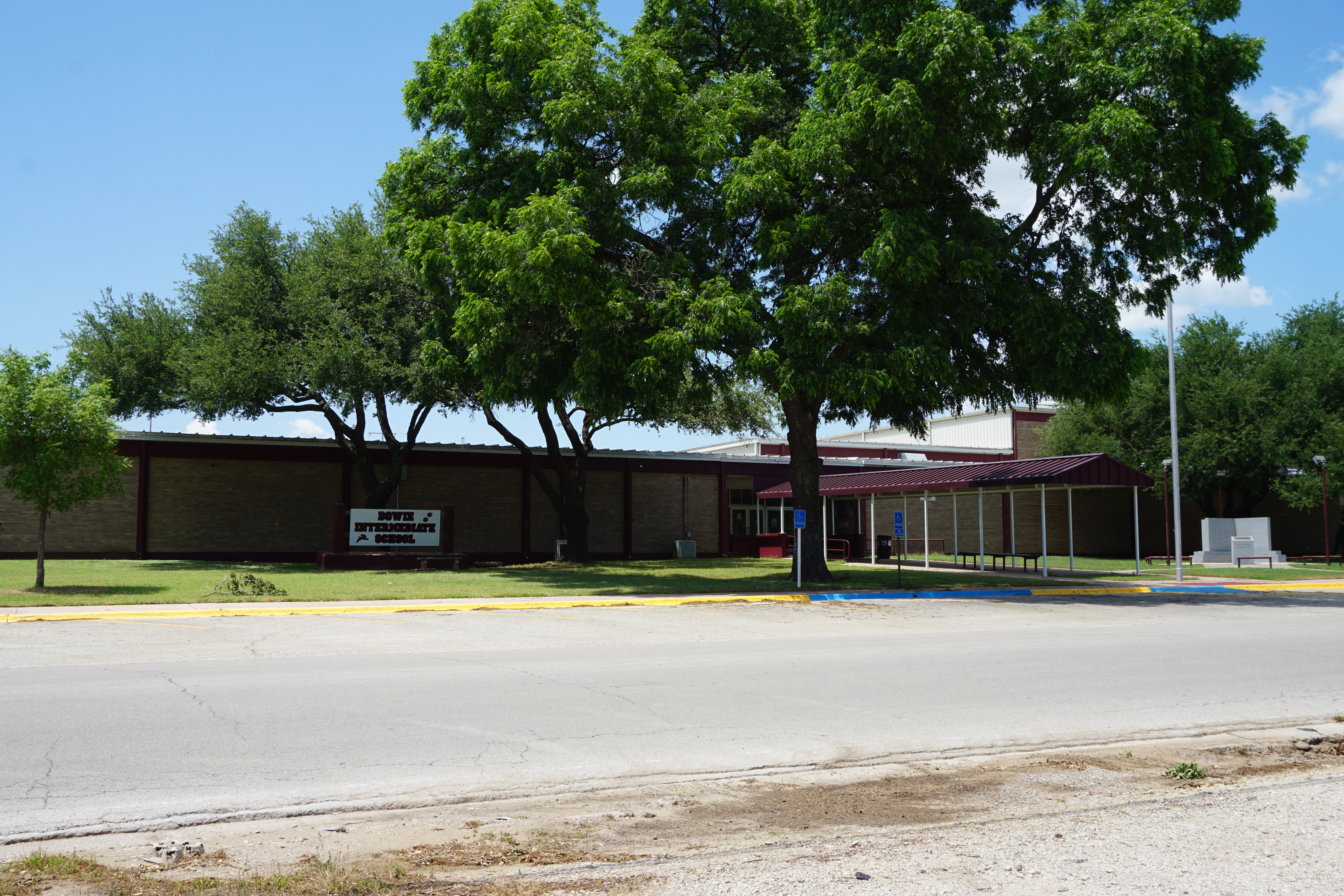 Bowie Intermediate School in Bowie, Texas (United States).